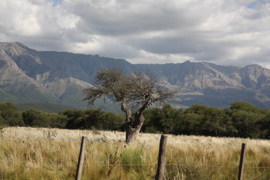 Road to Nono, at Sierras de Cordoba (Cordoba mountain range), Argentina.